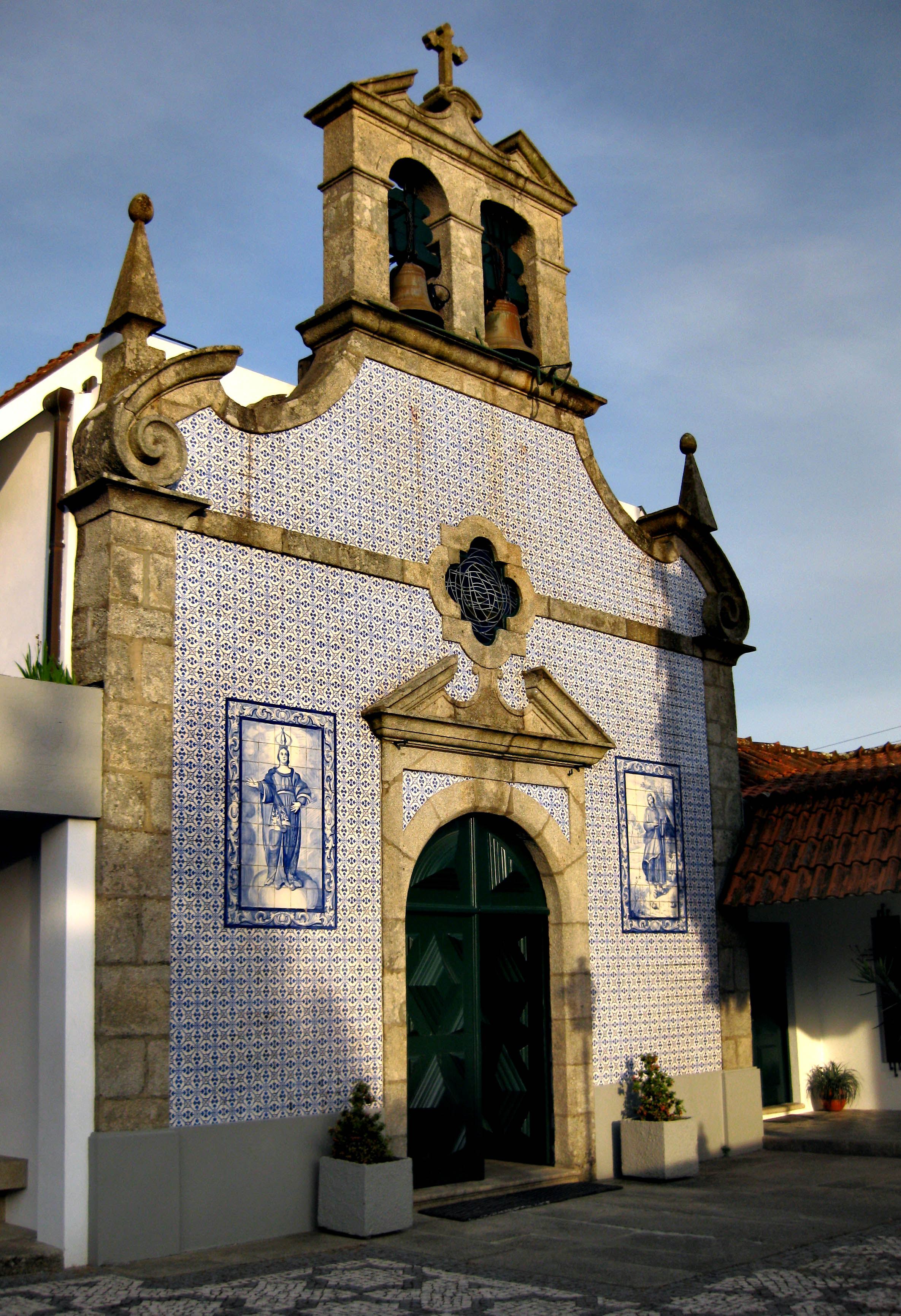 Church of Santa Maria de Avioso - Castêlo da Maia - Portugal